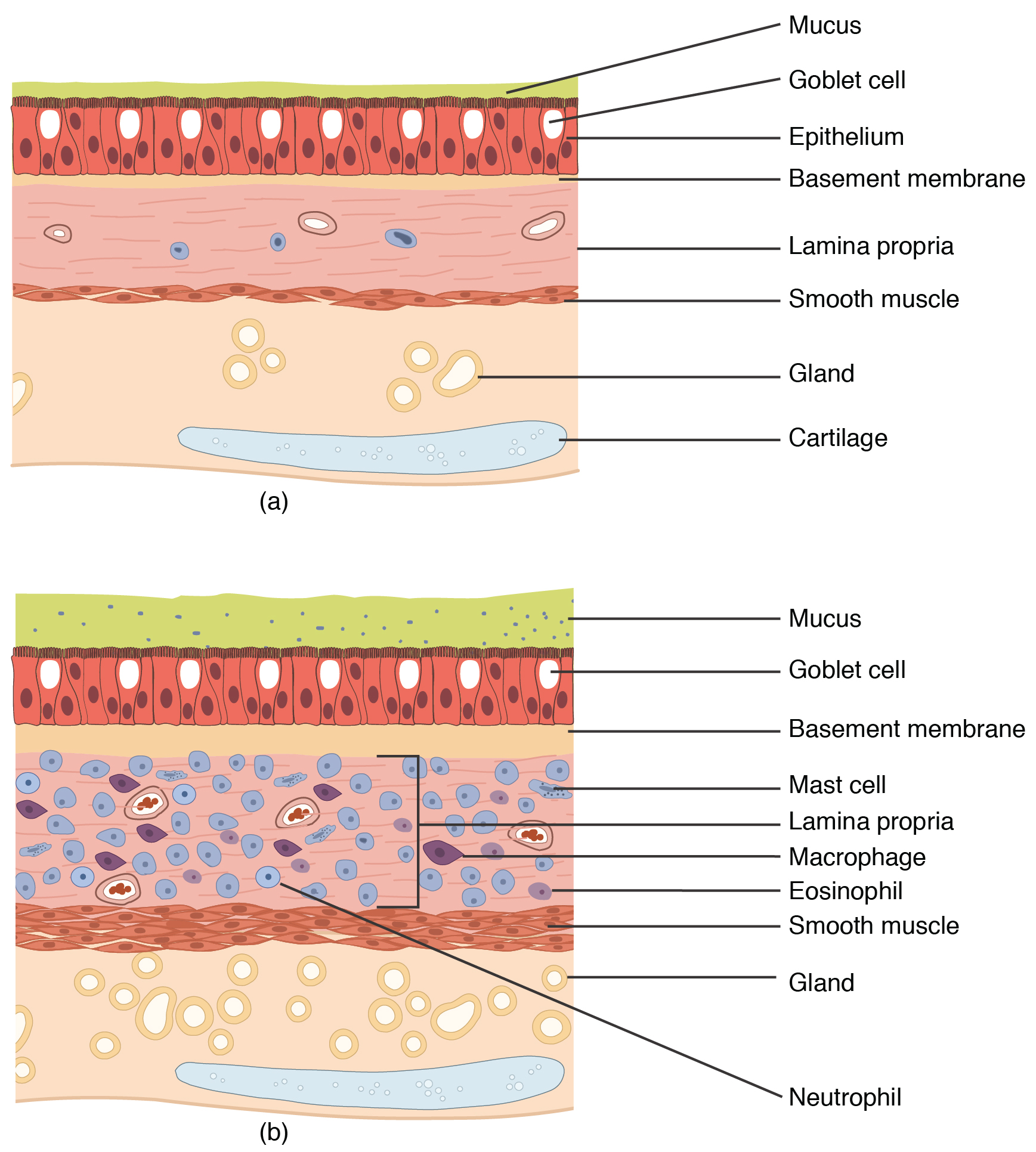 Illustration from Anatomy & Physiology, Connexions Web site. Jun 19, 2013.